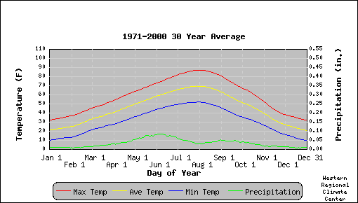 Max. Temp. is the average of all daily maximum temperatures recorded for the day of the year between the years 1971 and 2000. Ave. Temp. is the average of all daily average temperatures recorded for the day of the year between the years 1971 and 2000. Min. Temp. is the average of all daily minimum temperatures recorded for the day of the year between the years 1971 and 2000. Precipitation is the average of all daily total precipitation recorded for the day of the year between the years 1971 and 2000.